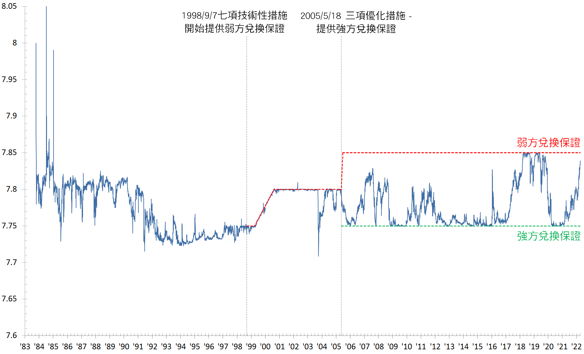 Graph showing Hong Kong dollar and U.S. dollar exchange rate and the exchange rate for the Convertibility Undertakings from 17 October 1983 to 16 March 2018.